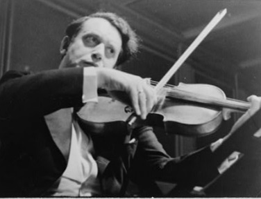 Violist Boris Kroyt playing in a concert with the Budapest String Quartet in the Coolidge Auditorium of the Library of Congress circa 1944